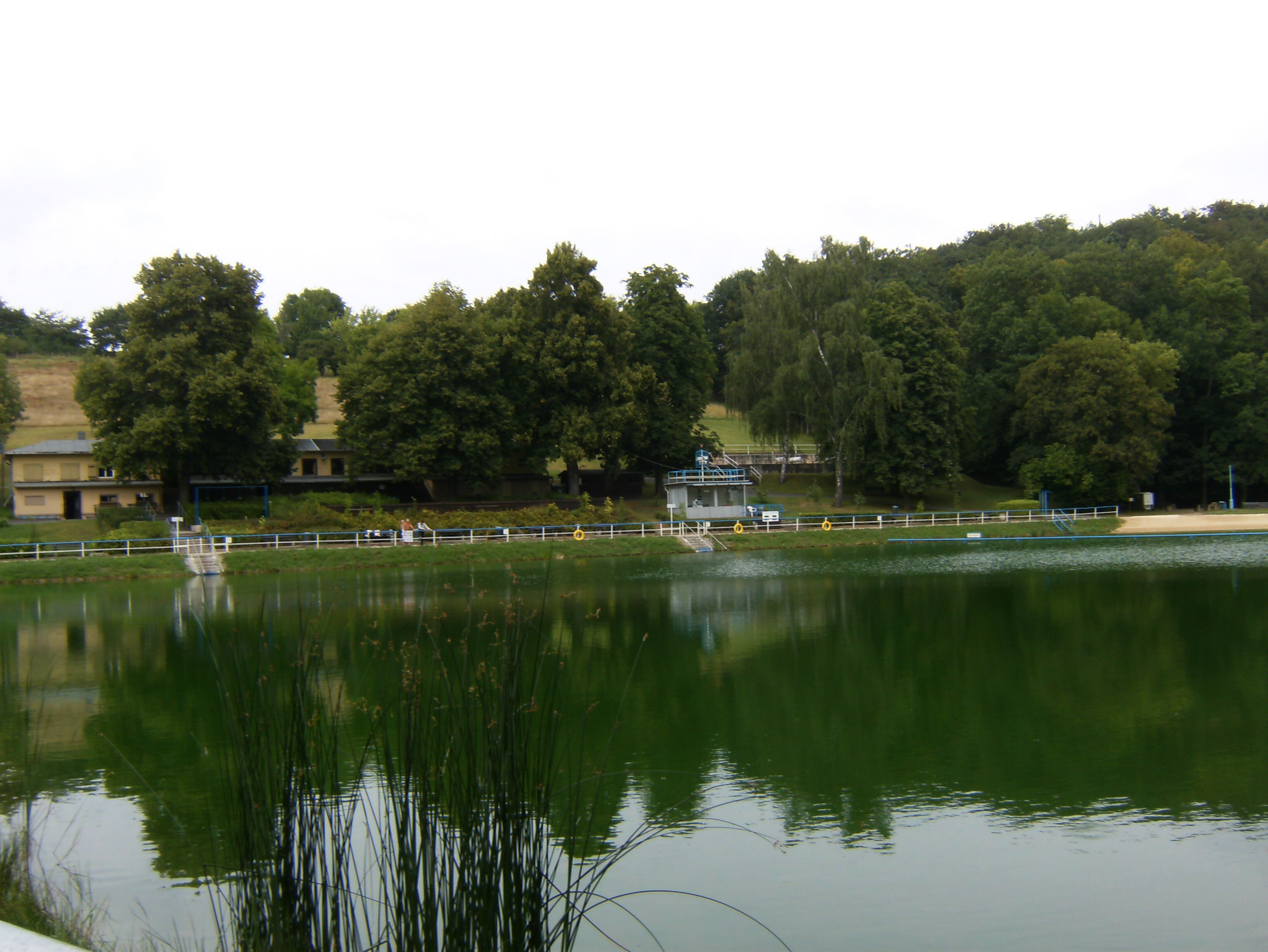 Kaimberg, swimming bath.